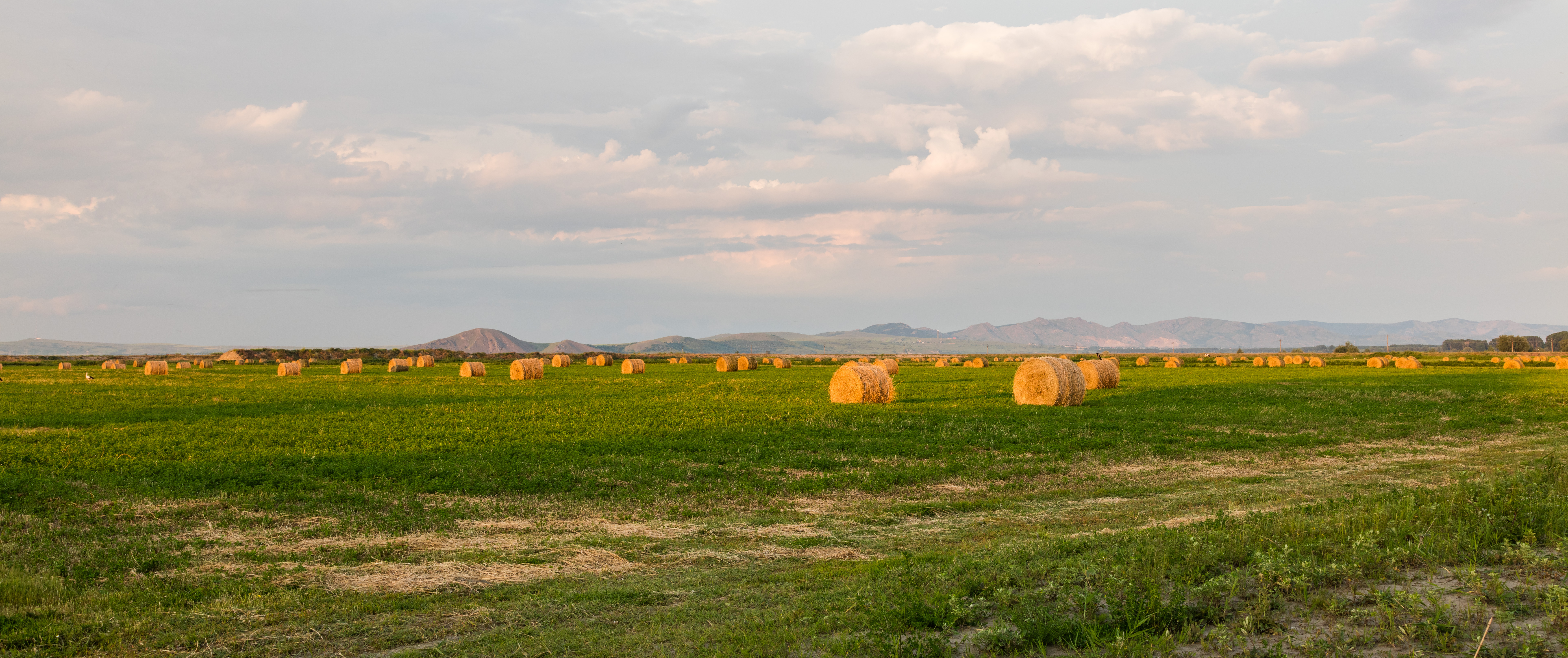 Straw bales, Macin, Romania